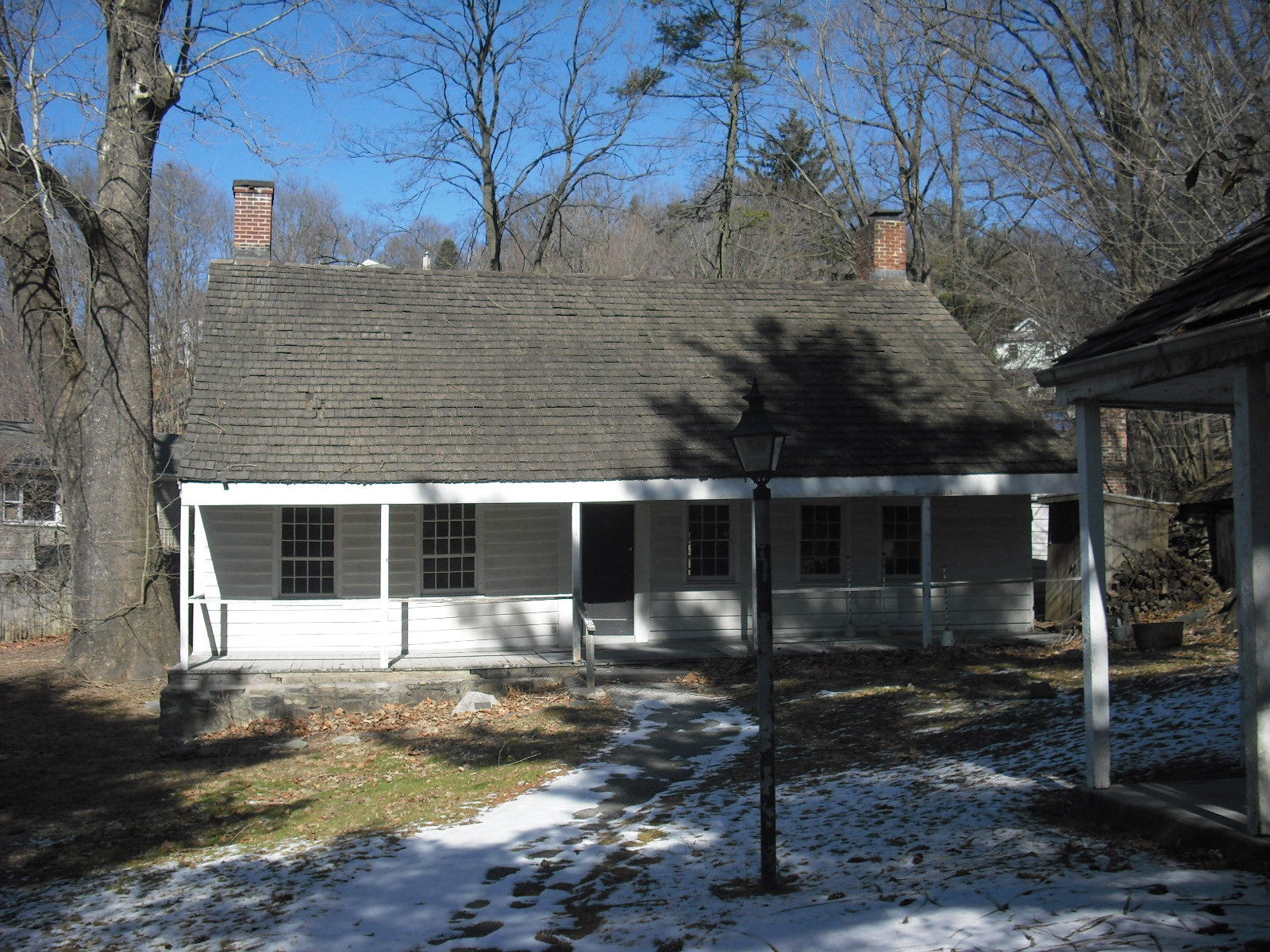 View of the Elijah Miller House